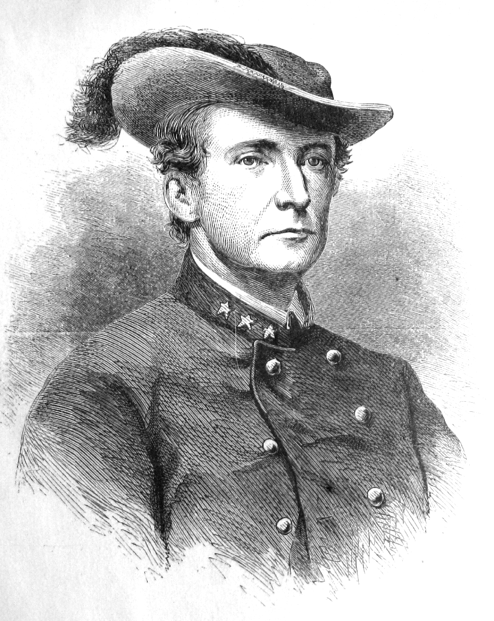 Wood engraving of Col. John S. Mosby from Major John Scott, Partisan Life with Col. John S. Mosby (New York: Harper & Bros. Publishers, 1867)